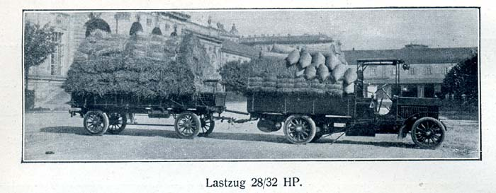 7 tons truck of the austro-hungarian Army